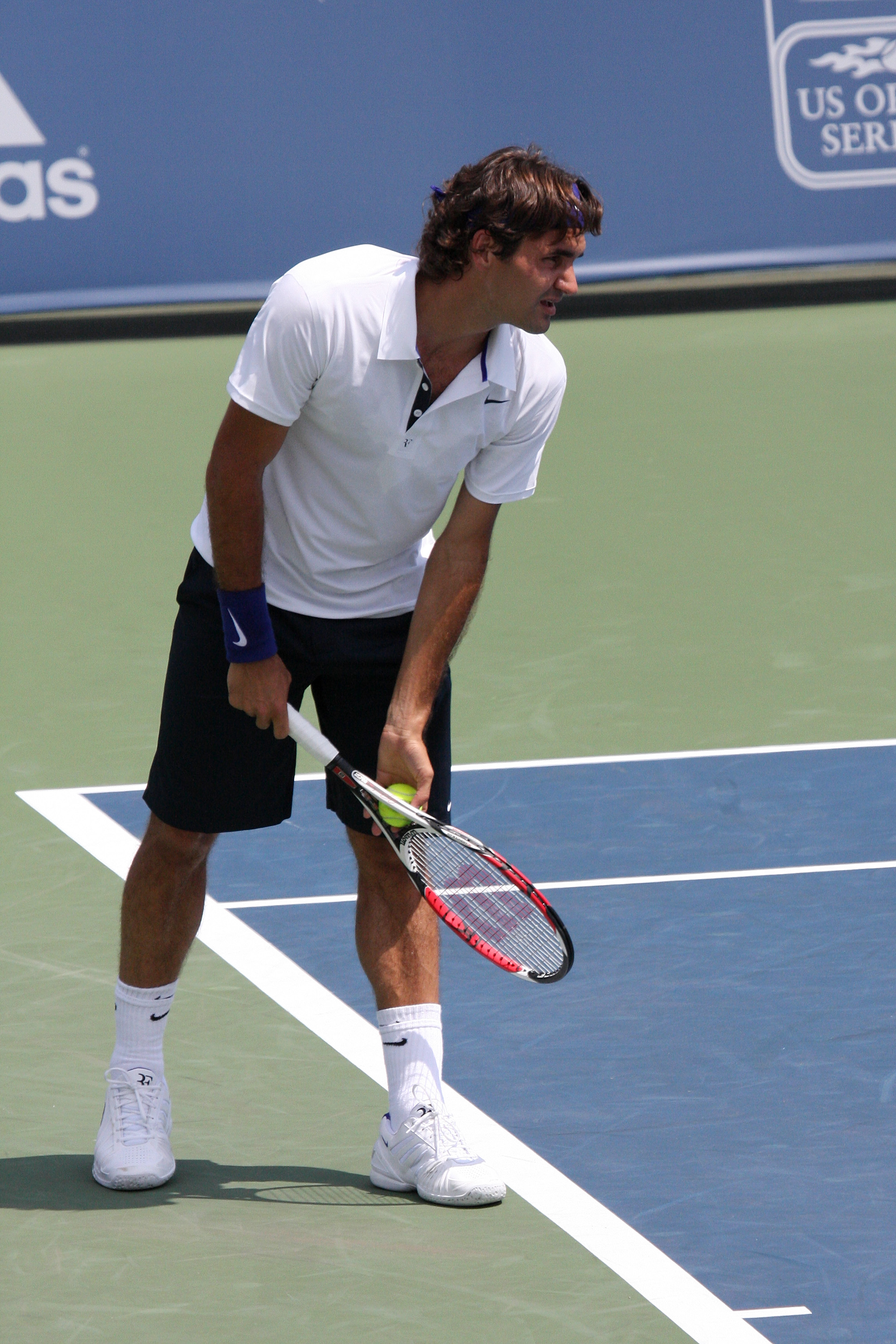 Loss to Ivo Karlouic 7-6 4-6 7-6. 2008 Western & Southern Financial Group Masters in Mason, Ohio